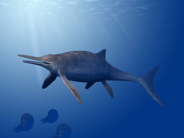 Life reconstruction of Wahlisaurus massarae